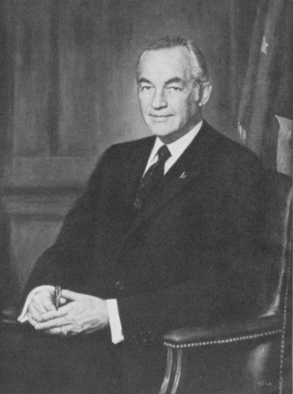 Maurice Hubert Stans, Secretary of Commerce